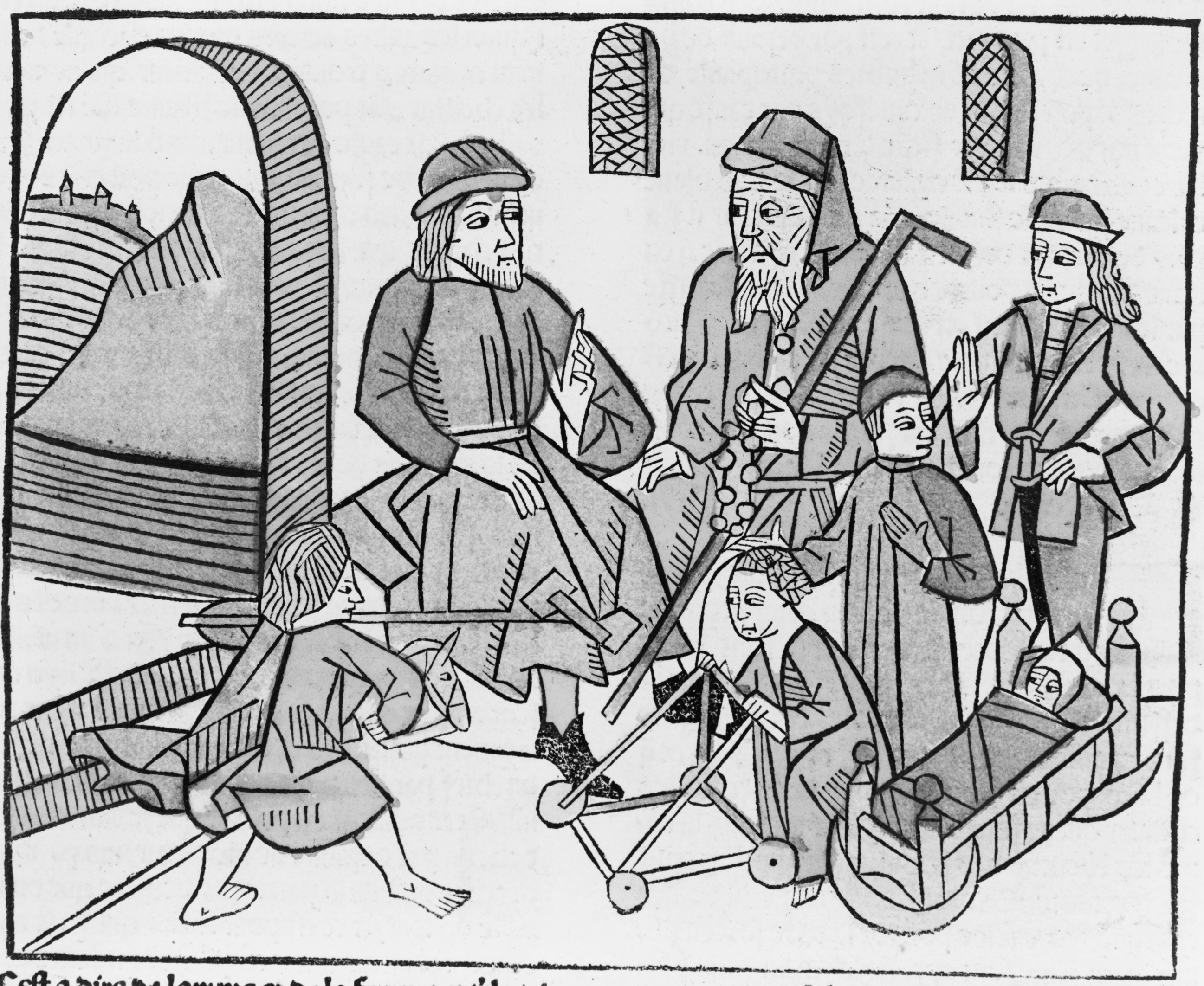 The stages of life from infancy to old age. Woodcut from De proprietatibus rerum by Bartholomeus Anglicus.